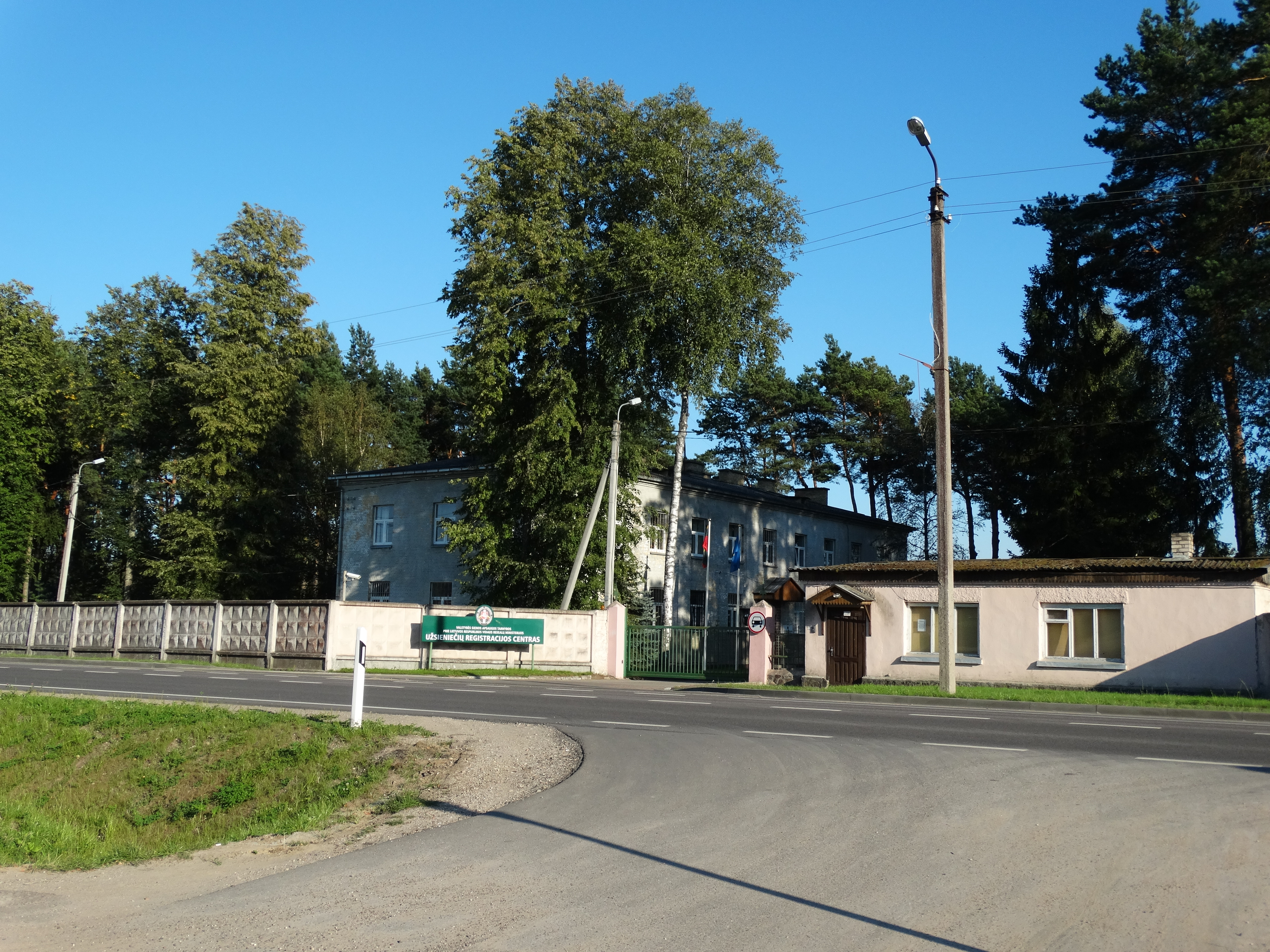 Foreigners Registration Centre, Pabradė, Švenčionys District, Lithuania